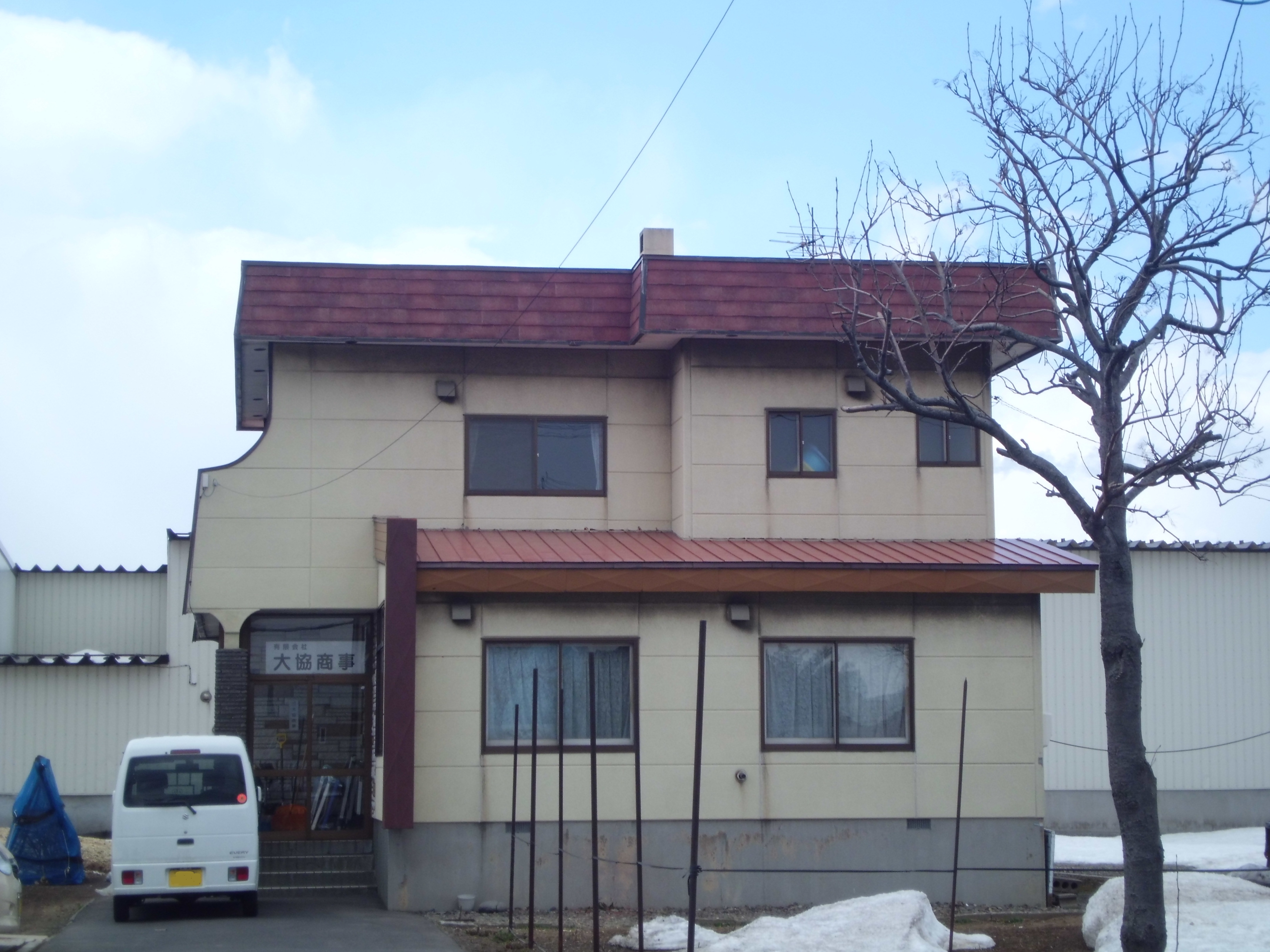 Daikyo Shoji in Nishi-ku, Sapporo